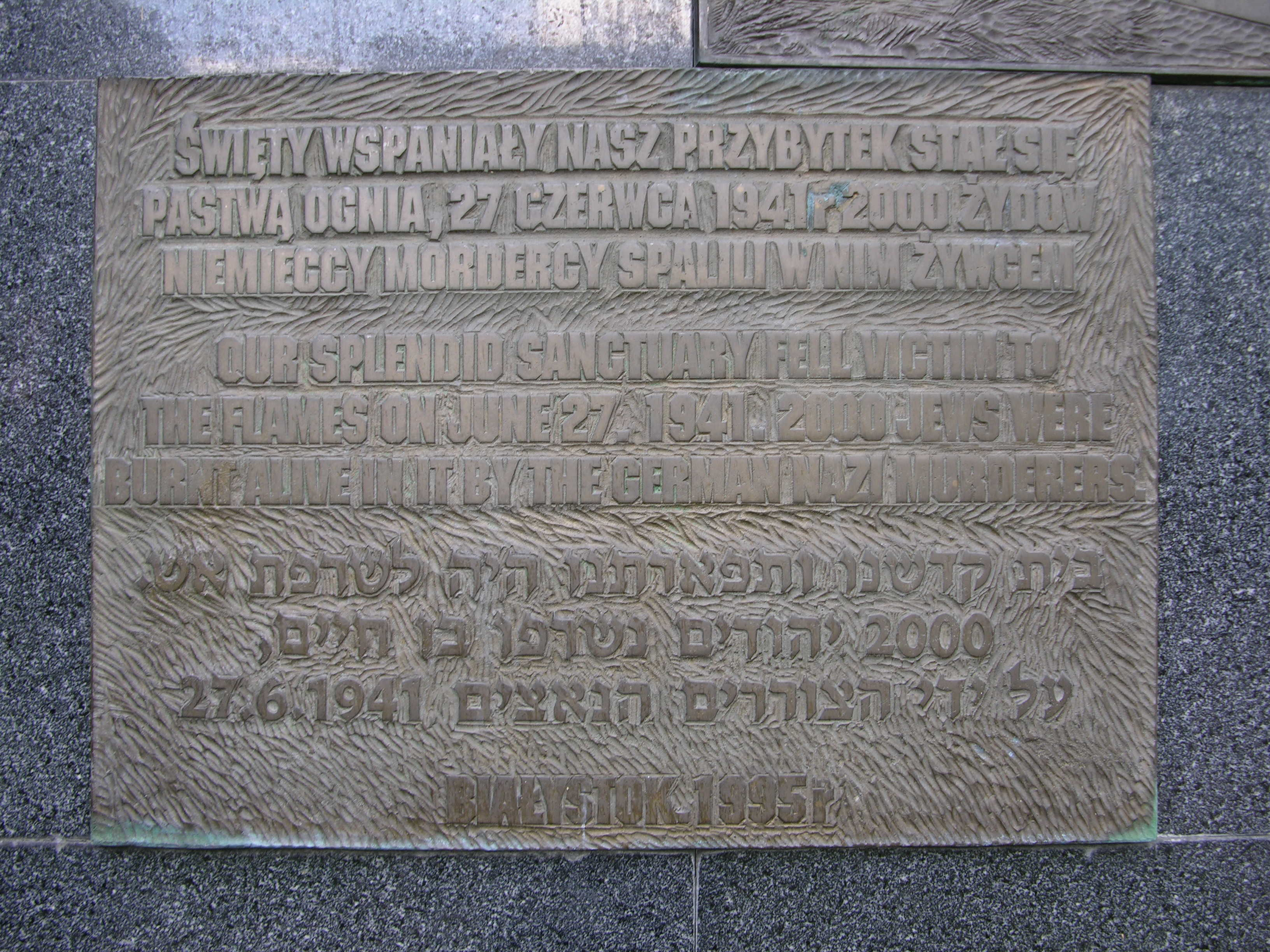 Great Synagogue in Białystok